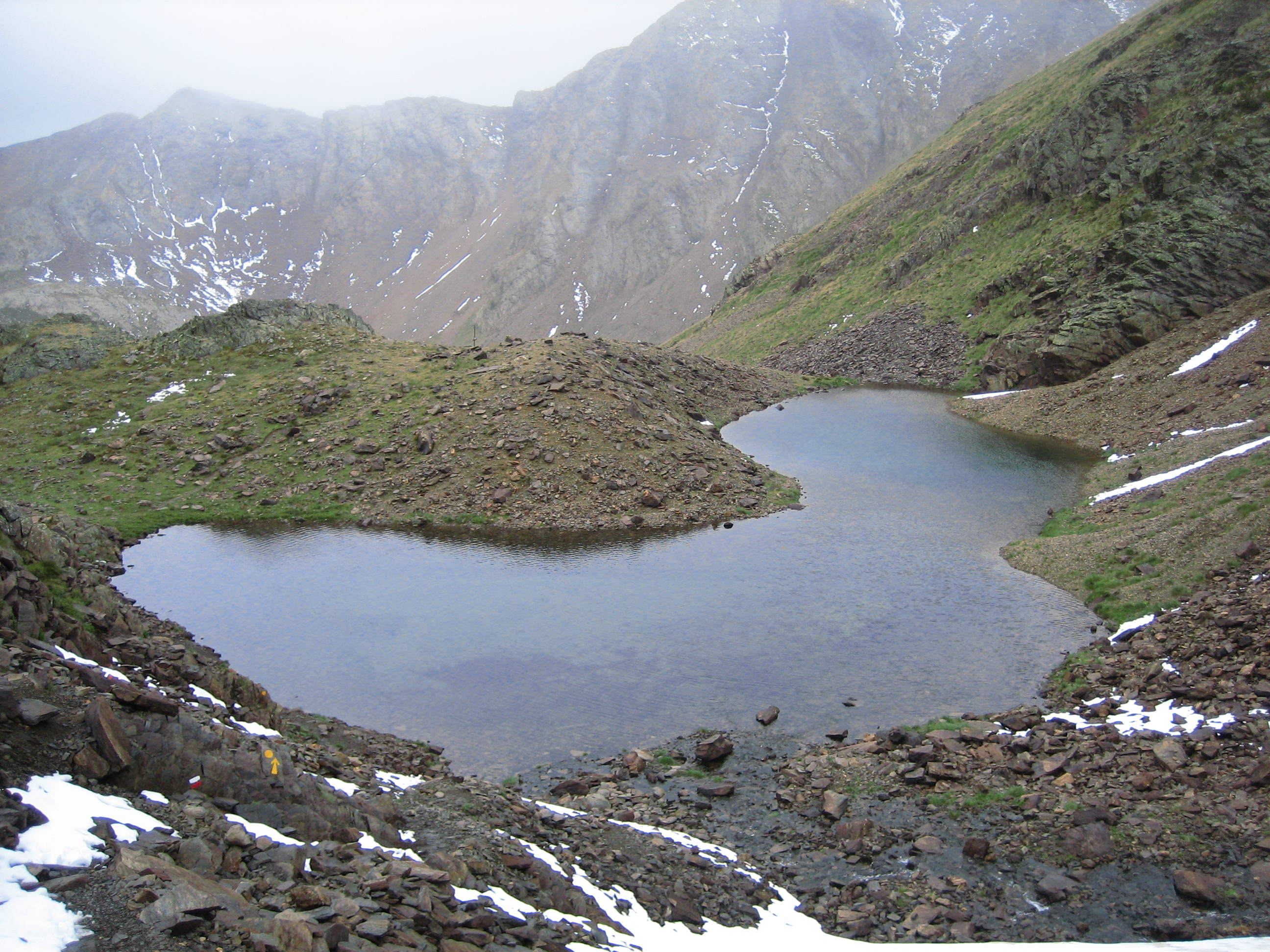 Basses de l'Estany Negre, Arinsal, La Massana, Andorra